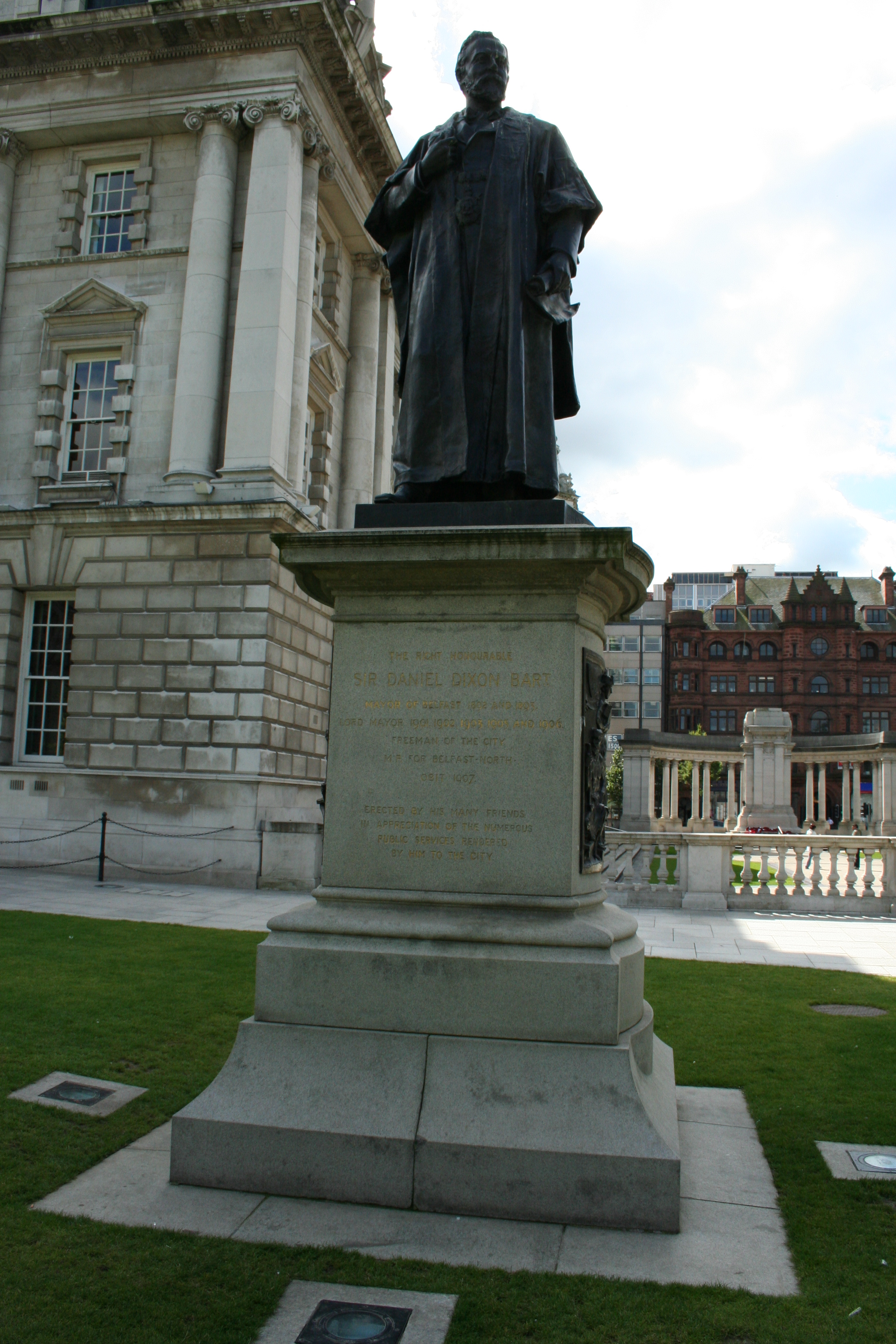 Image of Sir Daniel Dixon in the grounds of Belfast City Hall Credit: A Peter Clarke image